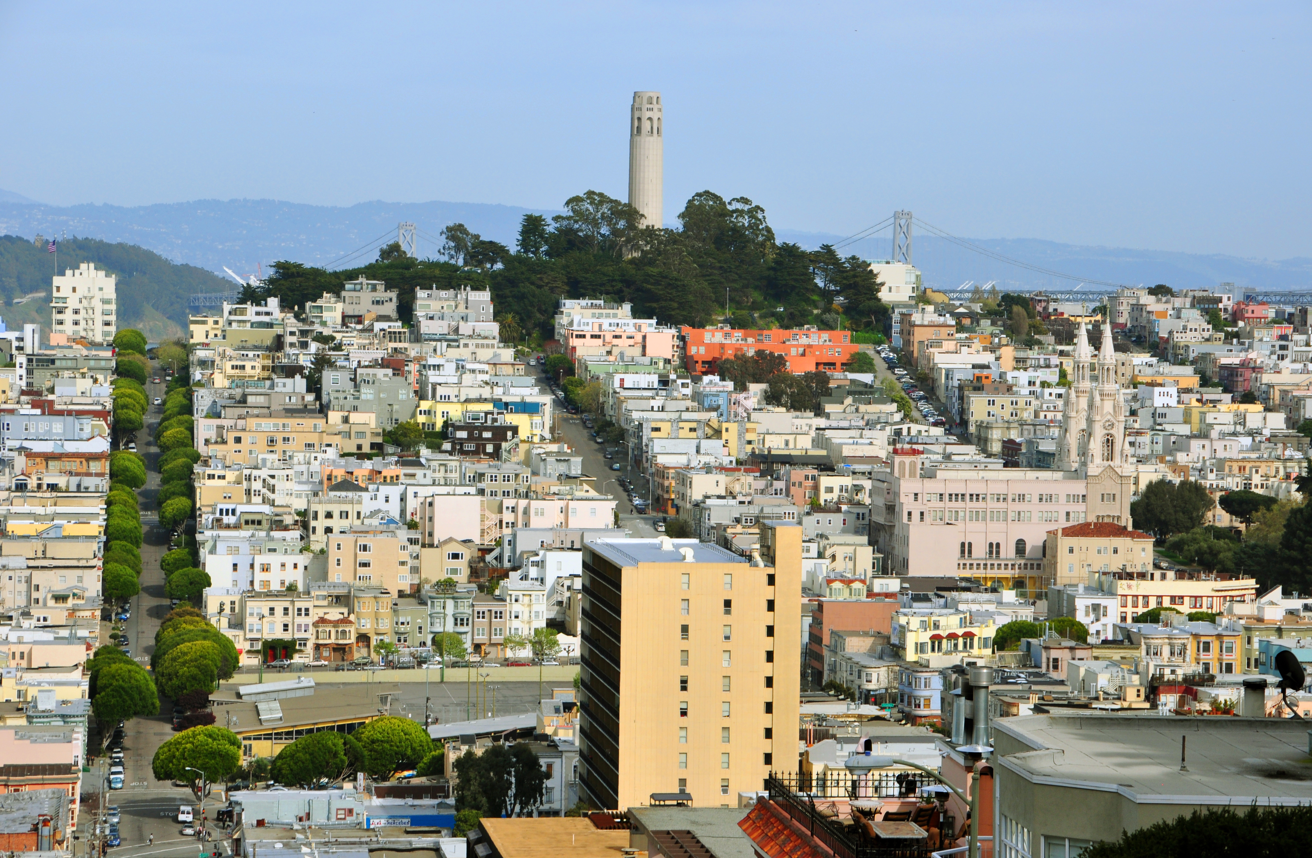 view of Coit Tower and Telegraph Hill from Lombard Street, March 2010 San Francisco